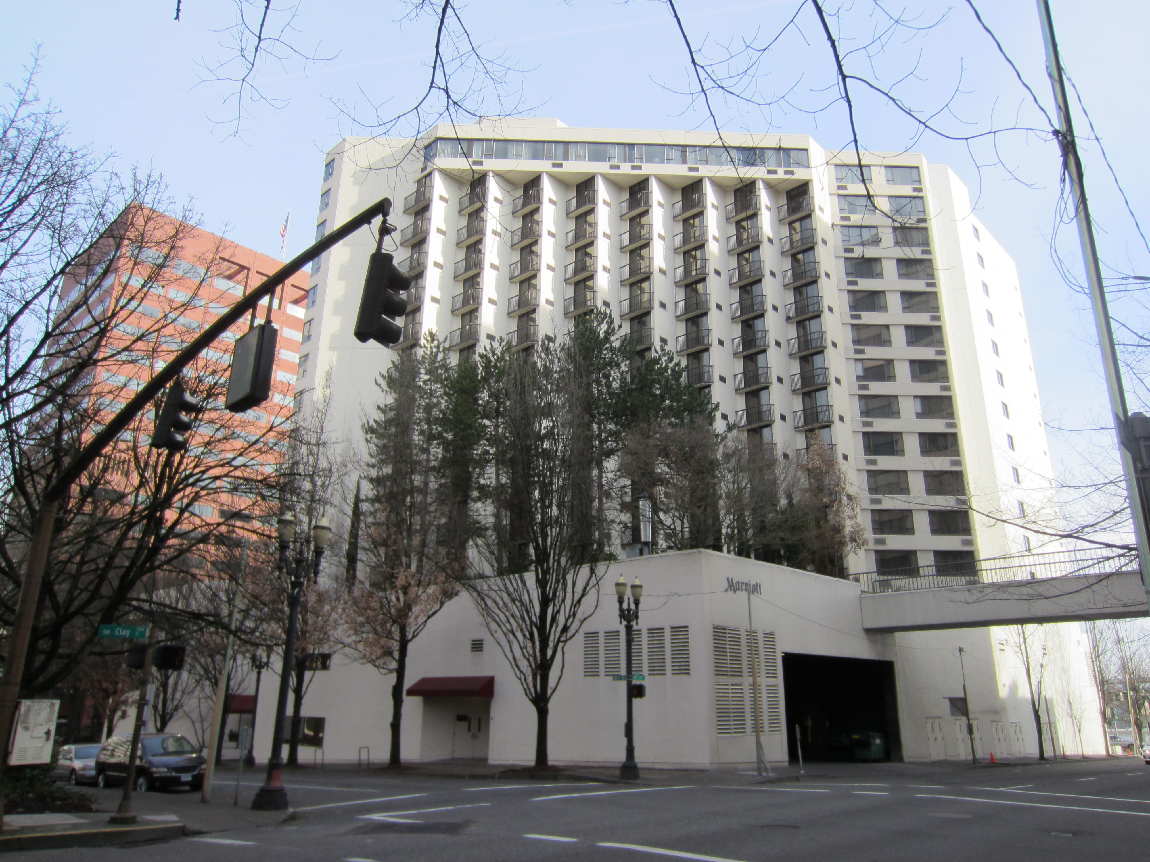 Marriott at Clay, near Tom McCall Waterfront Park, in downtown Portland, Oregon in January 2012